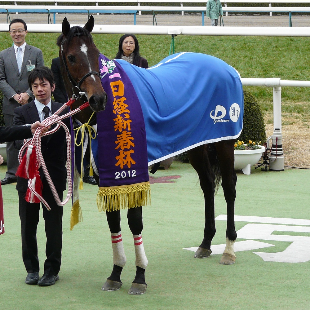 To-the-glory20120115(2)